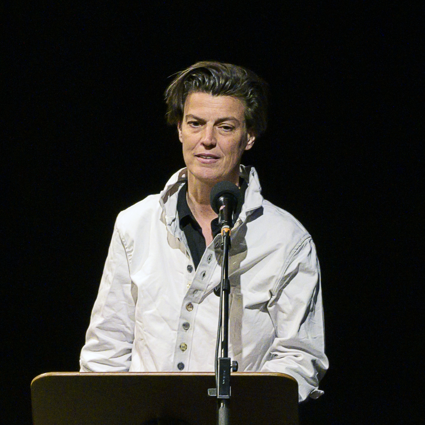 Carolin Emcke, Author and Journalist